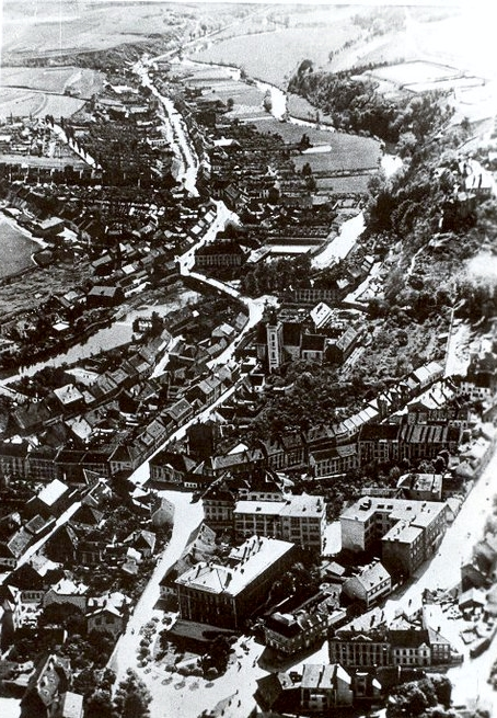 Air photo of town districts of Třebíč: Jejkov, Nové Dvory and Nové Město at beginning of the 20th century